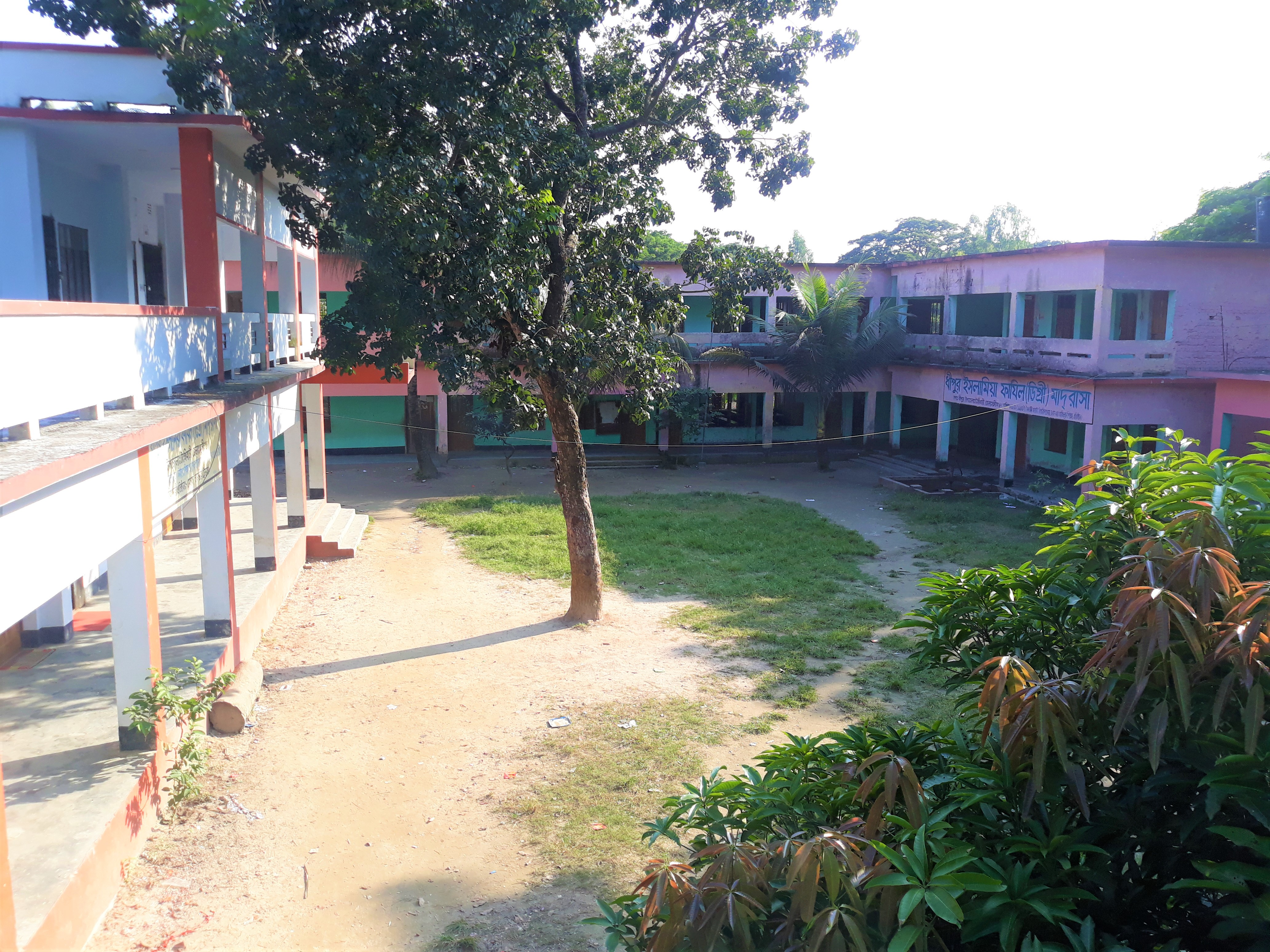 Dhipur Madrasah Islamia Fazil Madrasah, Tongibari, Munshiganj, Bangladesh.